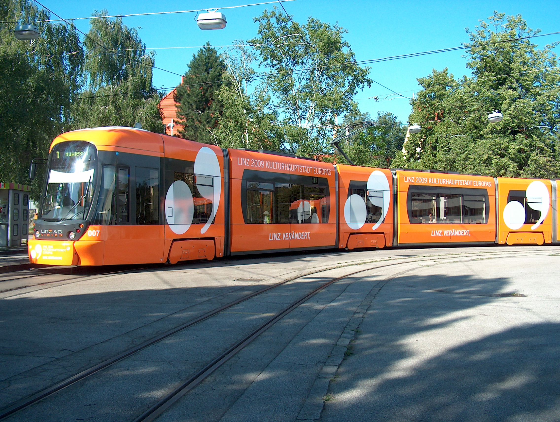 Linz - The European Capital of Culture in 2009 - Tram